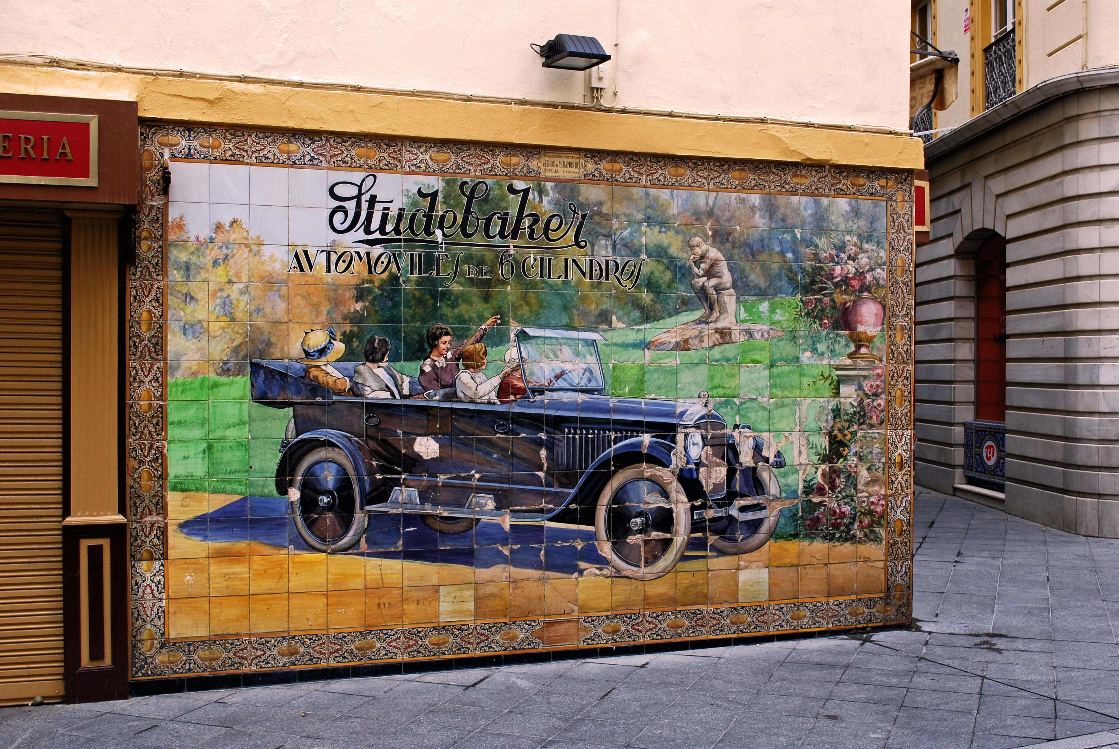 Studebaker publicitary tile, in Tetuan street (Seville)